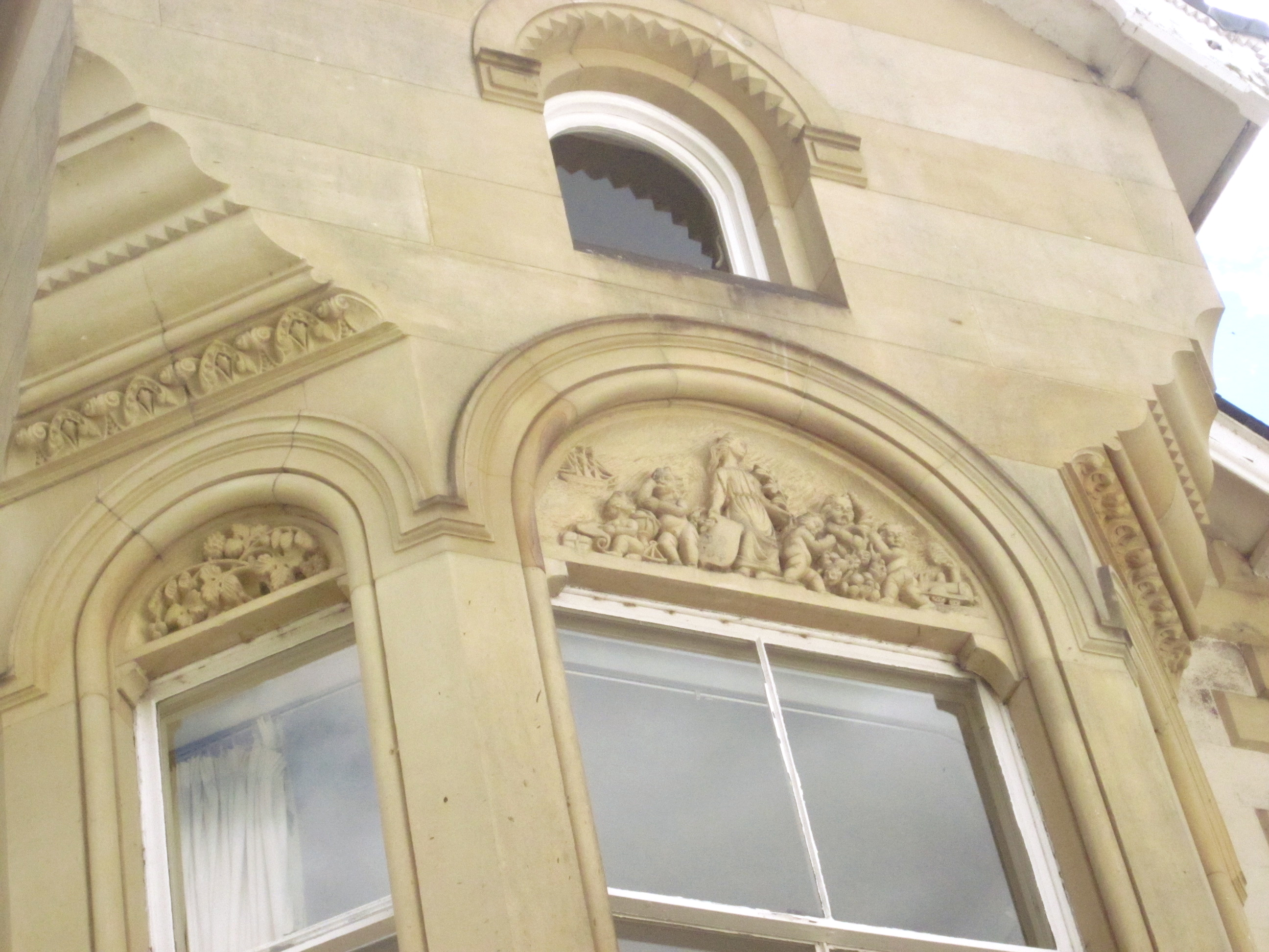 Carving over first floor windows